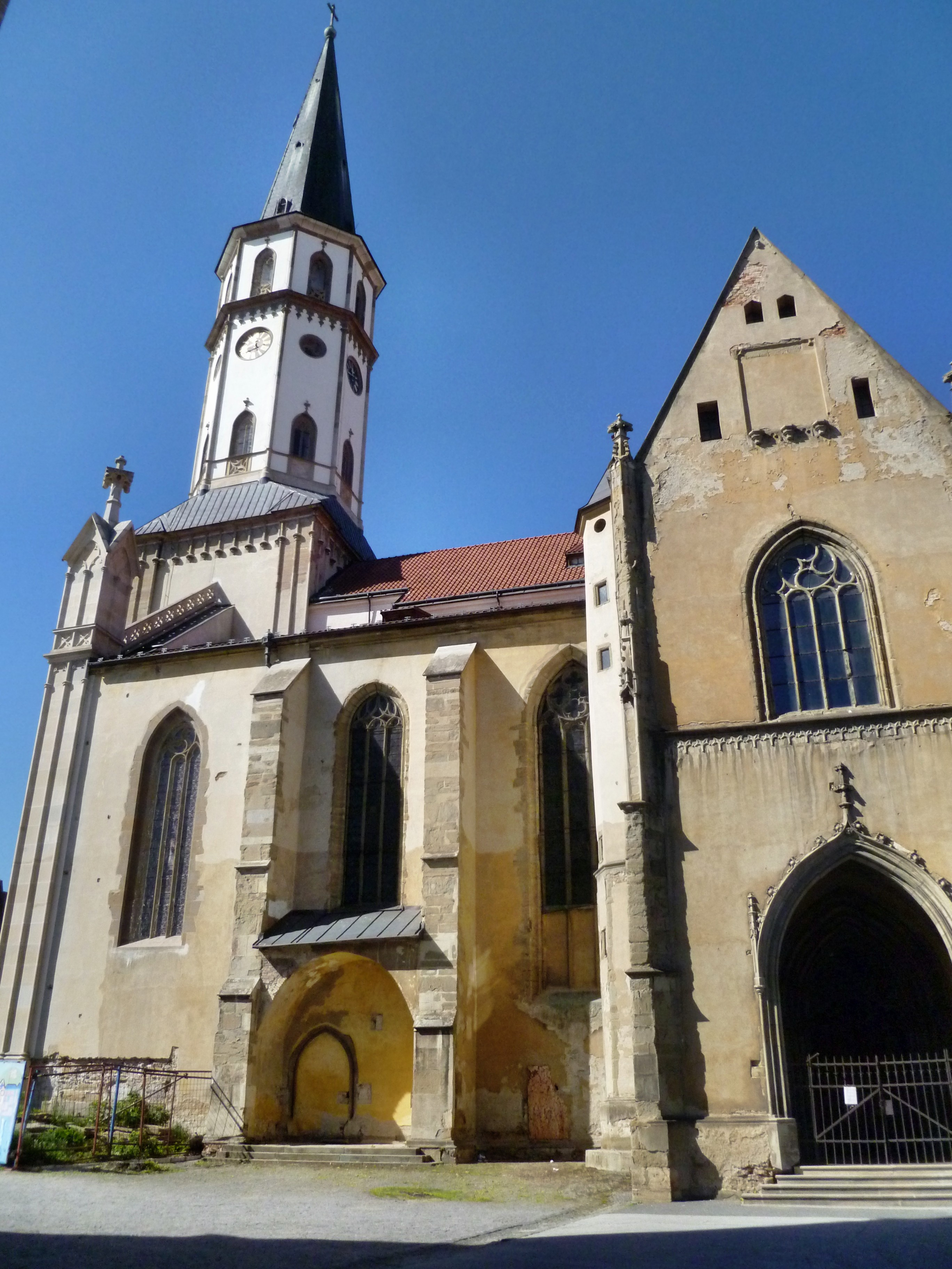 Church of St. James, Levoča, Slovakia